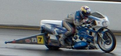 Drag racing motorcycle cropped from Pro Stock Bike taken at the FIA Main Event at Santa Pod 2007